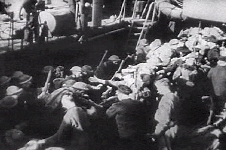 British fishers helping allied troops to board a trawler at Dunkirk (France, 1940). Screenhot taken from the 1943 United States Army propaganda film Divide and Conquer (Why We Fight #3) directed by Frank Capra and partially based on, news archives, animations, restaged scenes and captured propaganda material from both sides.